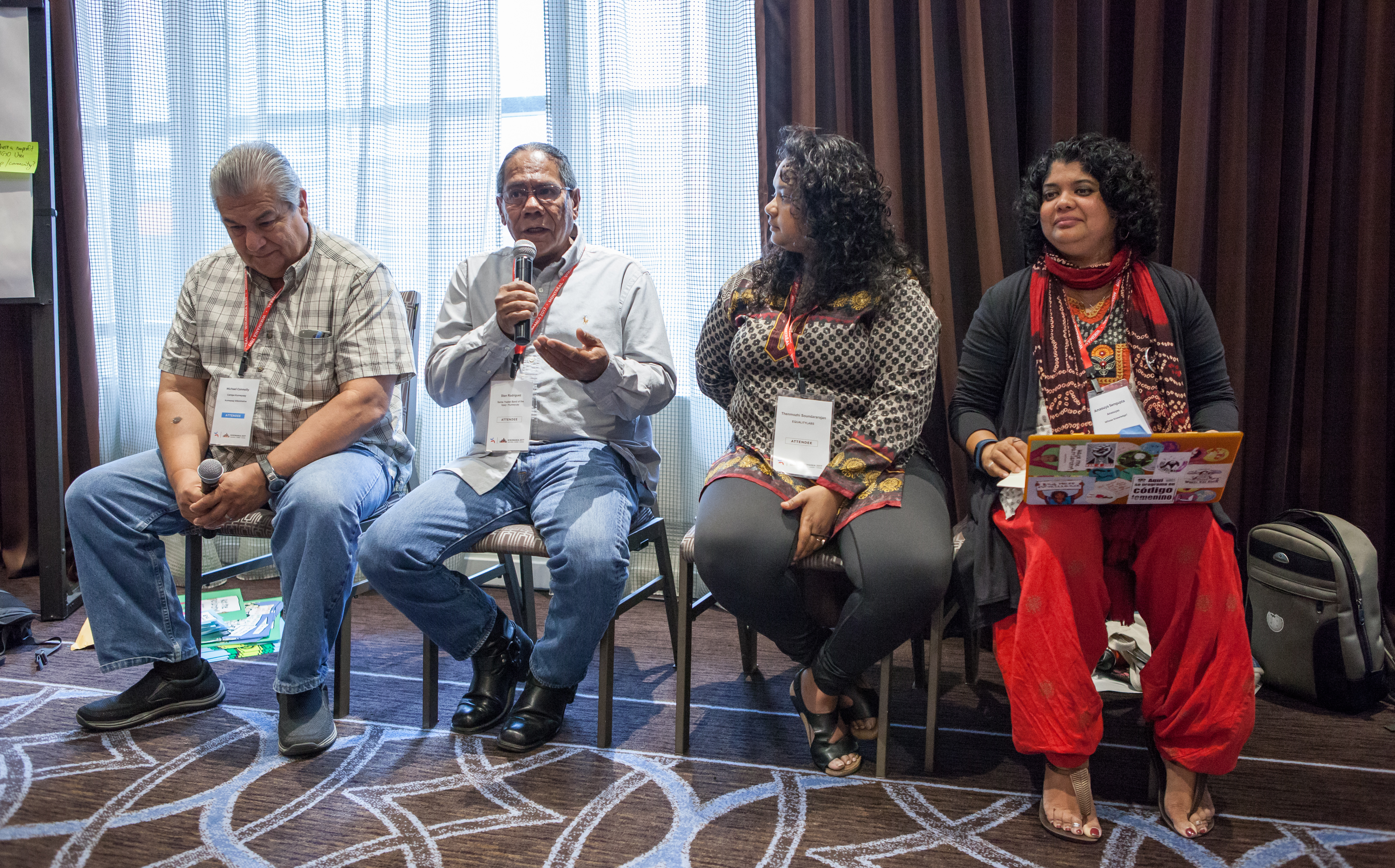 Michael Connolly Miskwish, Stan Rodriguez, Thenmozhi Soundararajan, and Anasuya Sengupta present on a Whose Knowledge panel at Wikimania 2017.